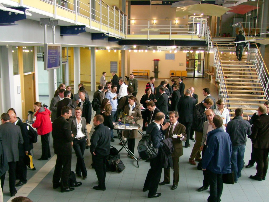 GEABA-Kaffeepause.jpg